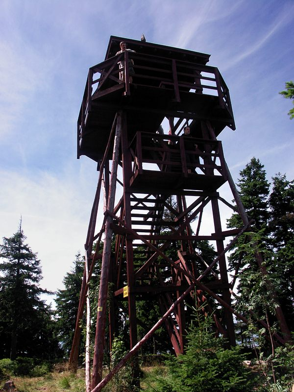 Watch tower on Czarna Góra (Śnieżnik Mountains, Sudetes, Poland).